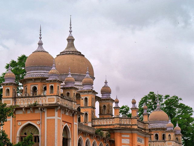 Unani hospital building near Charminar, Hyderabad, India.